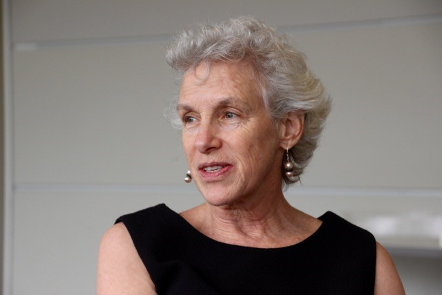 Headshot of Joan C Williams